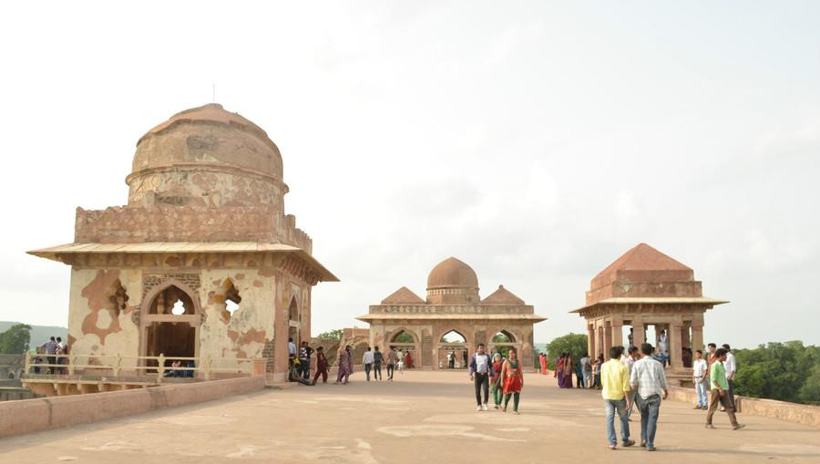 The color of sand stone and cloudy sky in Jahaj Mahal Mandu